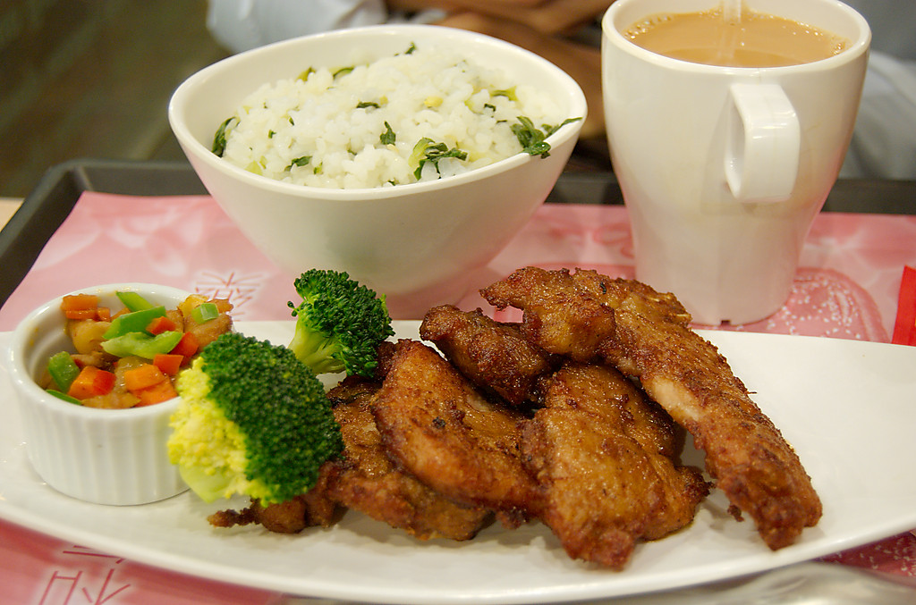 Shanghai pork ribs in a Hong Kong fast food shop